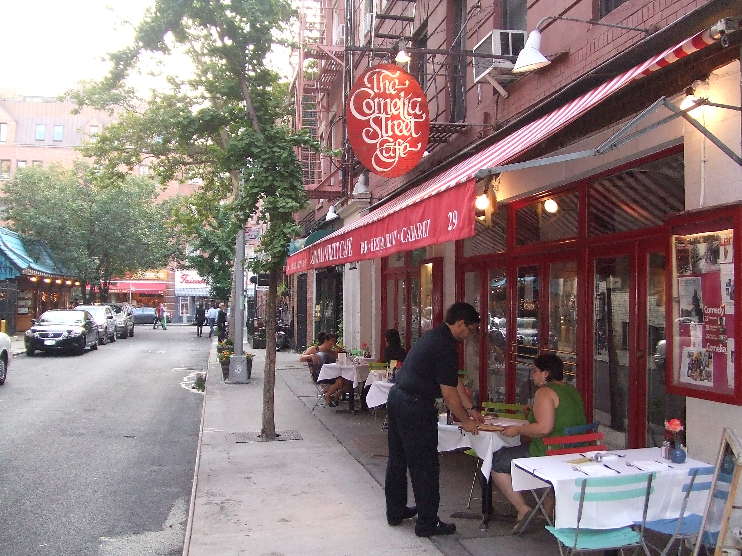 Cornelia Street cafe in Greenwich Village, NYC